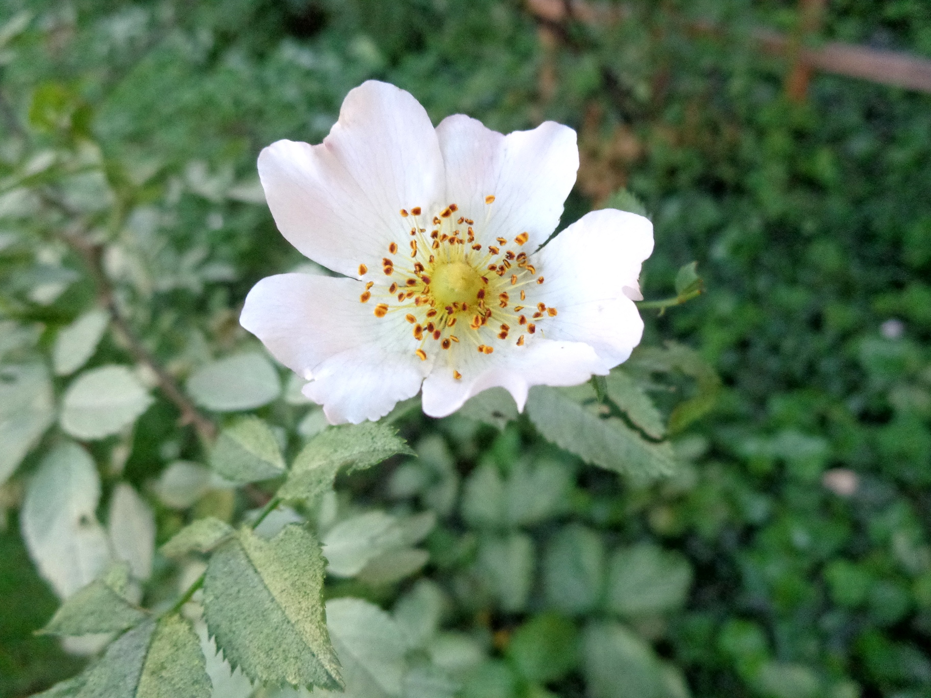 Rosa corymbifera. Found in Rīga town, Latvia